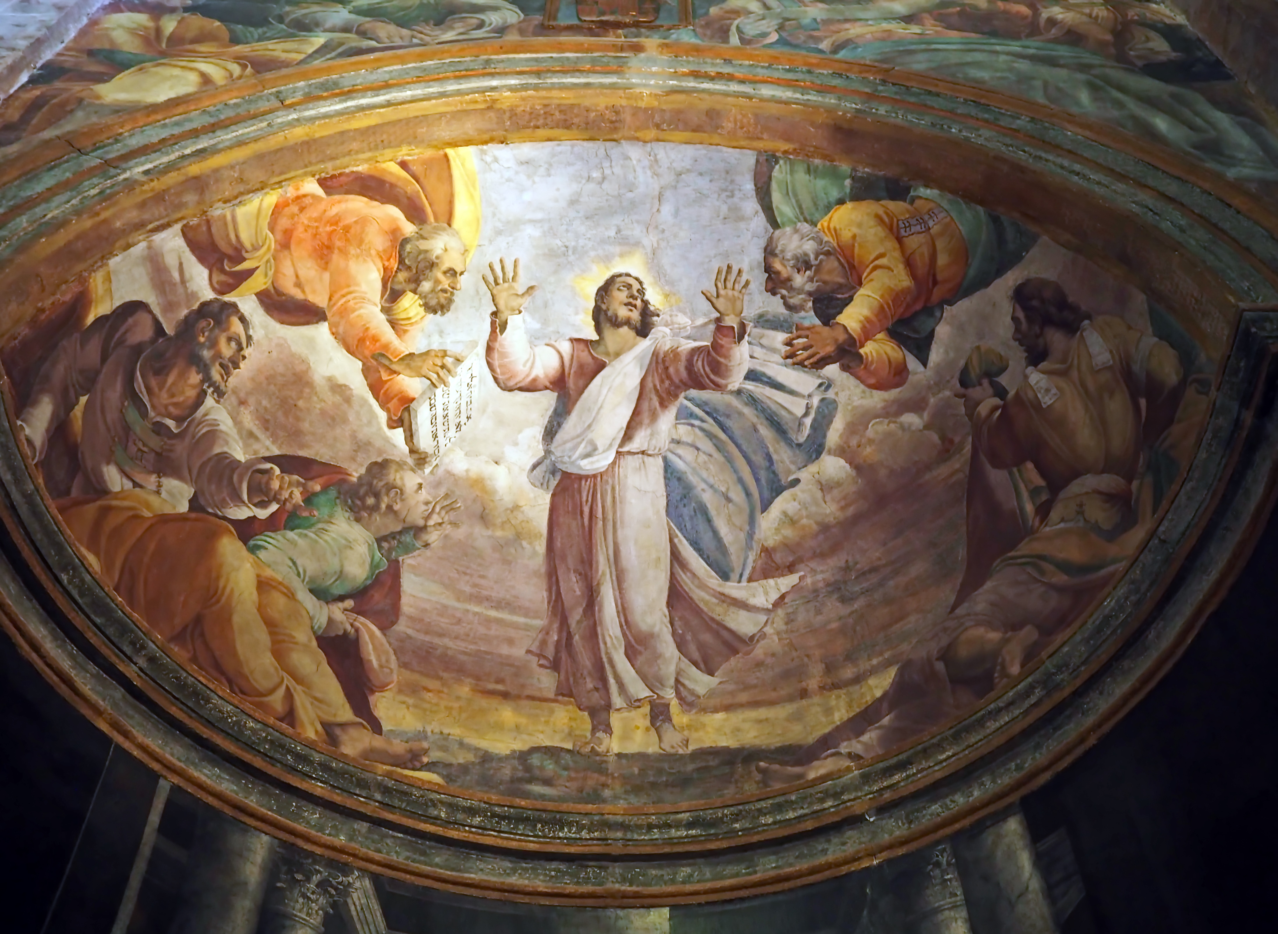 San Pietro in Montorio (Rome); Cappella della Flagellazione; Transfiguration